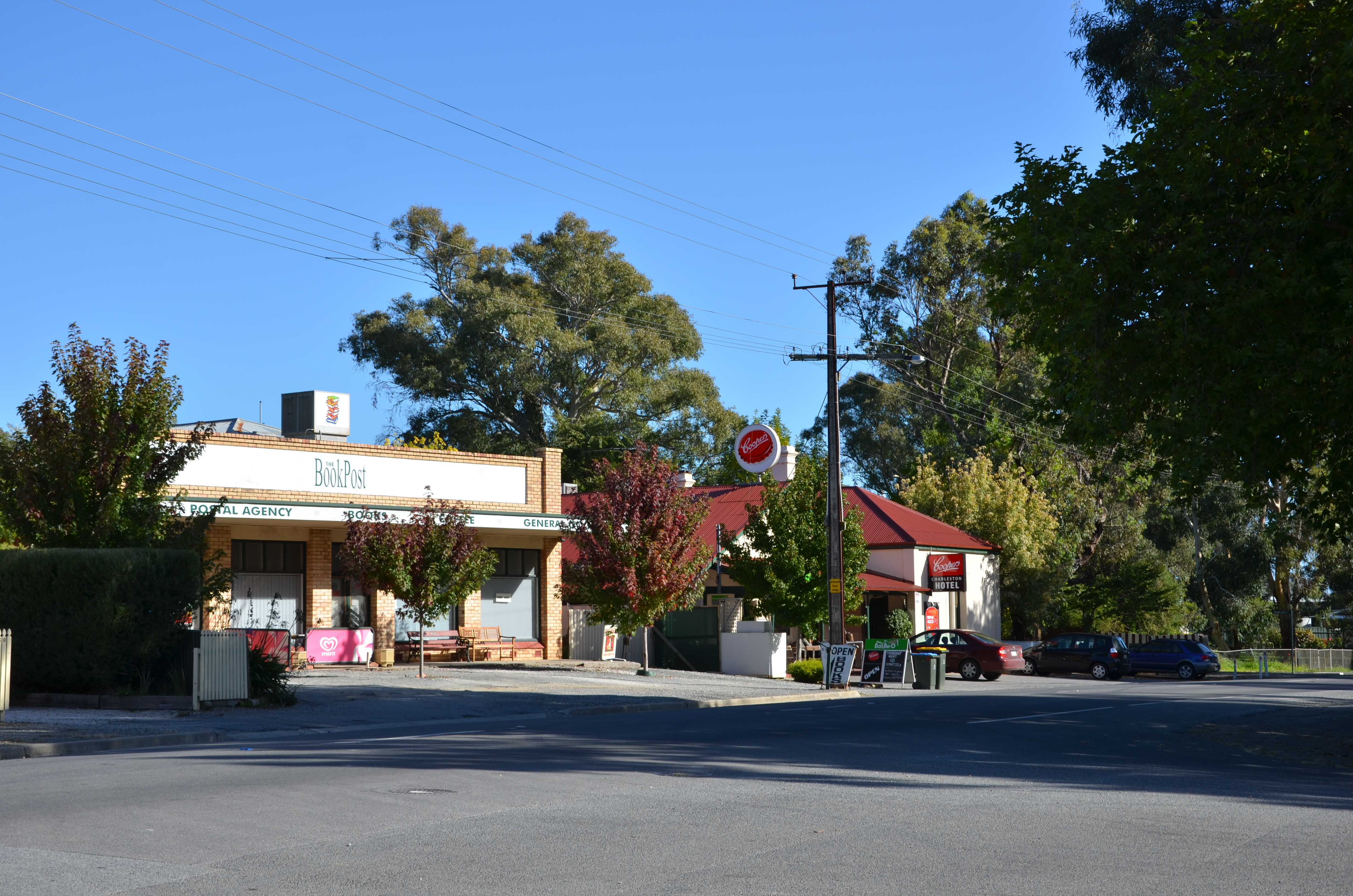 Township of Charleston, South Australia. The general store is at left of frame, and the Charleston Hotel is at centre-right.